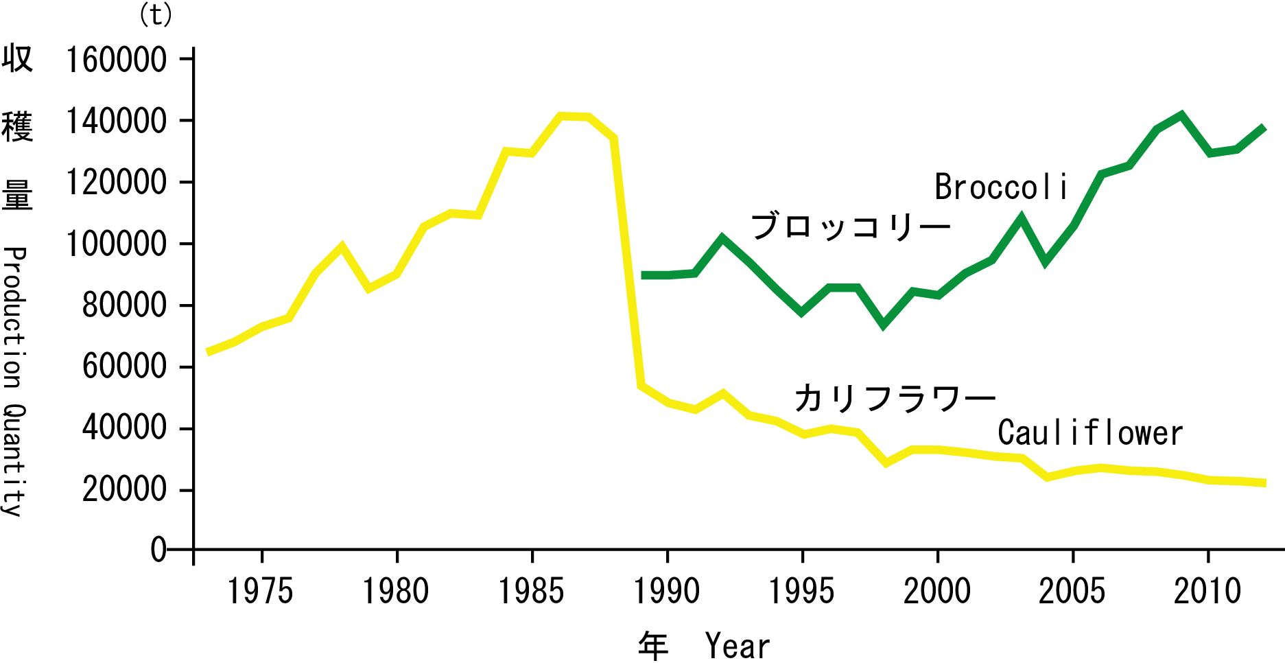 These graphs show production quantity of Cauliflower & Broccoli in Japan from 1973 to 2012. Data for Broccoli are available from 1989. Data source is e-Stat, powered by Statistics Bureau, Ministry of Internal Affairs and Communications, Japan.